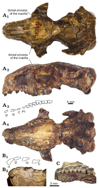 Skull and upper dentition of Protypotherium endiadys of the Collón Curá Formation, Argentina